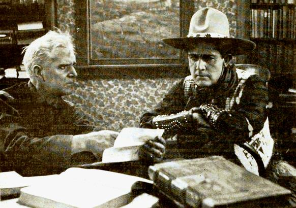 Still for the American western film High Pockets (1919) with an unidentified actor and Louis Bennison, on page 1542 of the June 7, 1919 Moving Picture World.